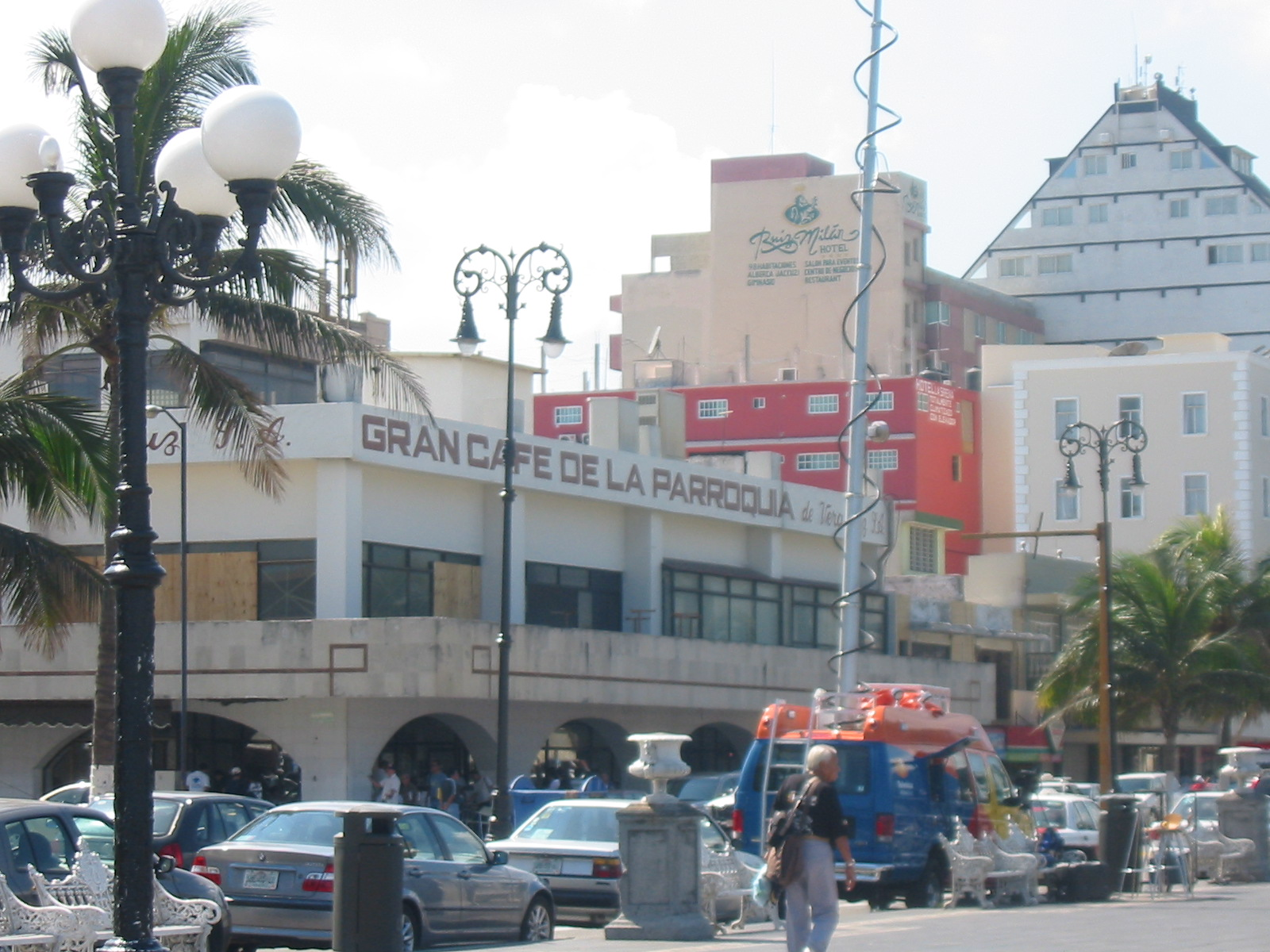 View of the "Gran Cafe de la Parroquia" at the boardwalk of Veracruz